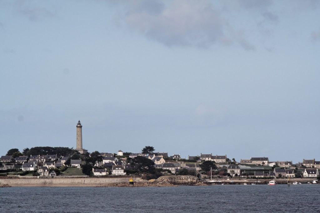 Ile de Batz (Finistère, France) viewed from Roscoff